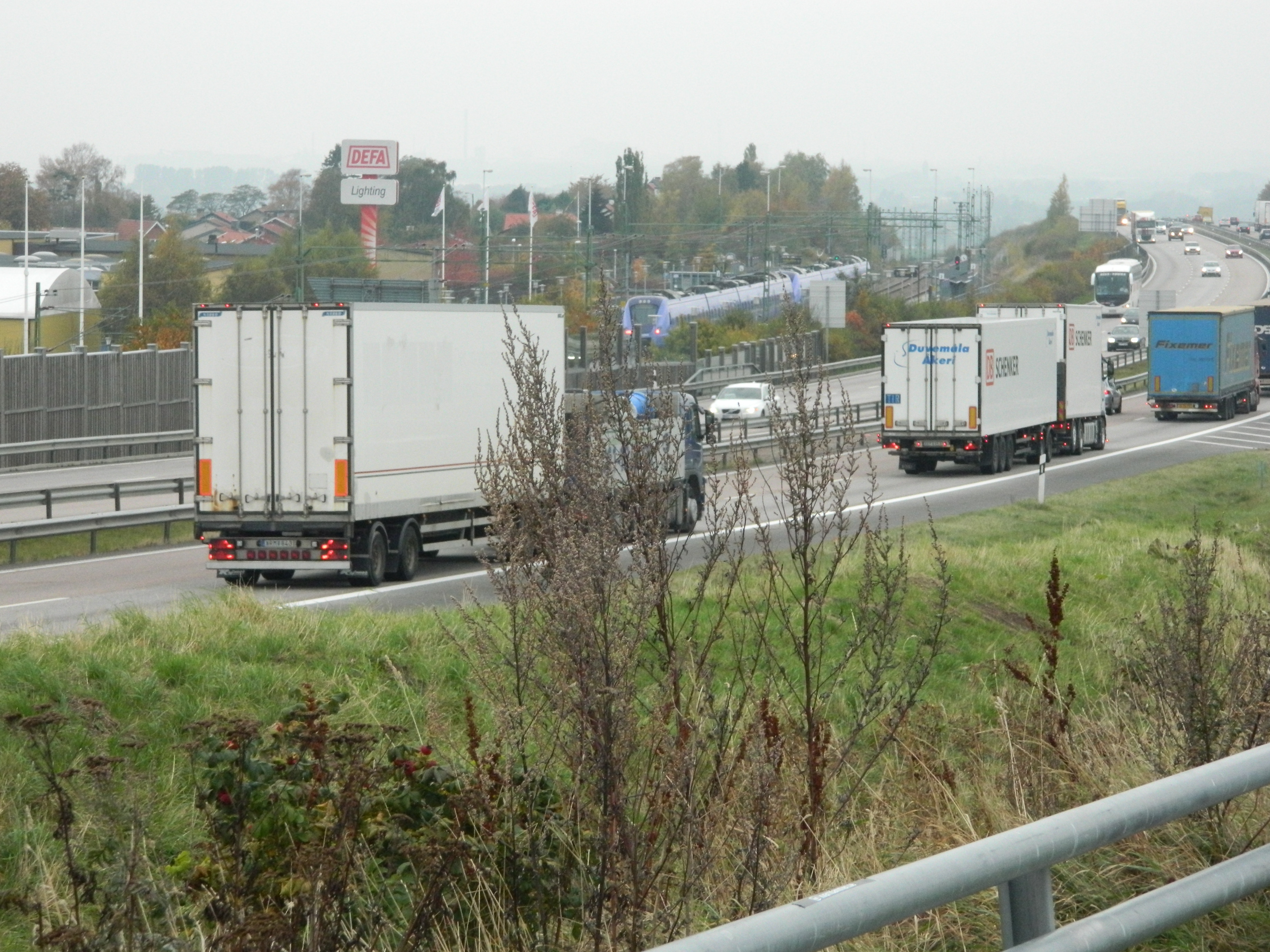 The motorway through western Scania, labeled as E6